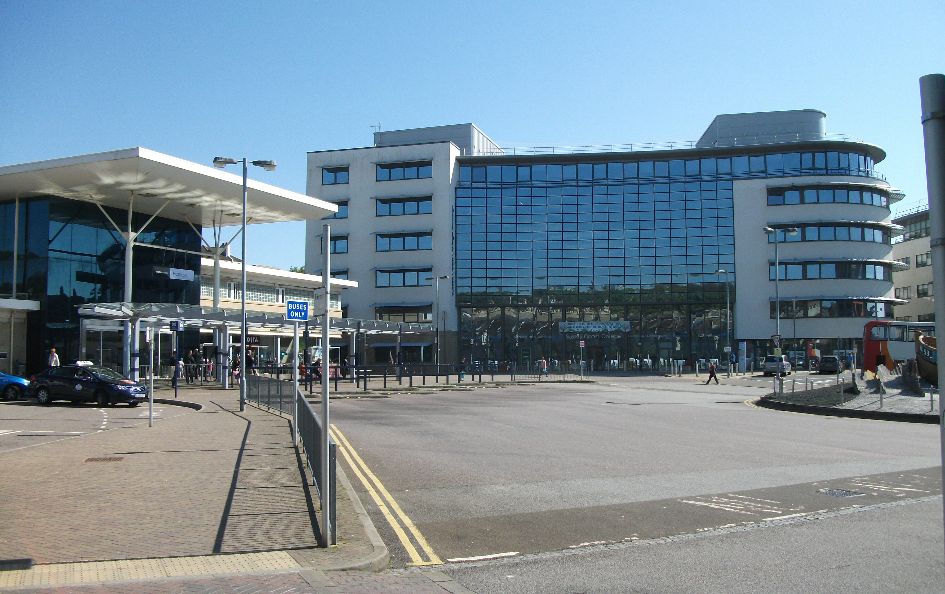 Sussex Coast College Hastings, Plaza building. View across station forecourt. Hastings railway station on left of shot. Station Approach, Hastings, East Sussex, TN34 1BA